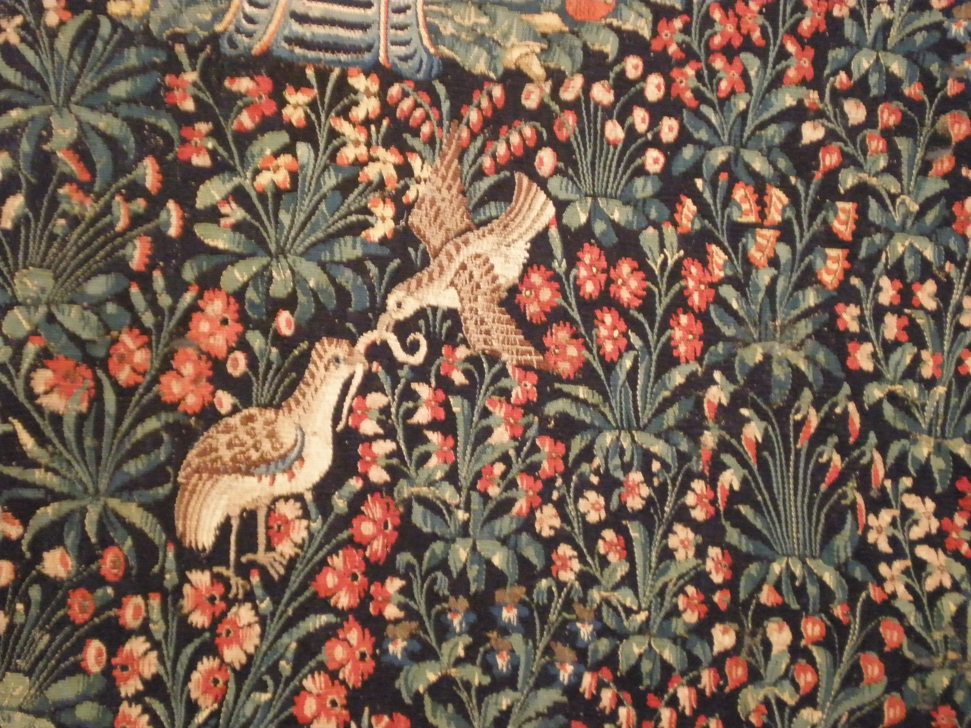 Tapestry 1543-52 Southern Netherlands (Belgium), Bruges Tapestry woven in wool and silk on wool warp With the Giovio arms and family motto in Latin, 'Wisdom is weaker than fate' Probably commissioned for the Palazzo Giovio in Como This long tapestry with three medallions surrounded with garlands bears the arms and motto of Giovio of Como on a mille-fleurs ground, enlivened with a variety of birds and animals. It is the finest example of its kind known. It was presumably intended to hang above wainscotting. Paolo Giovio was bishop of Nocera, but his motto 'fato prudentia minor' (wisdom is weaker than faith) is more Humanist than Christian. Collection ID: 256-1895 This photo was taken as part of Britain Loves Wikipedia in February 2010 by David Jackson.